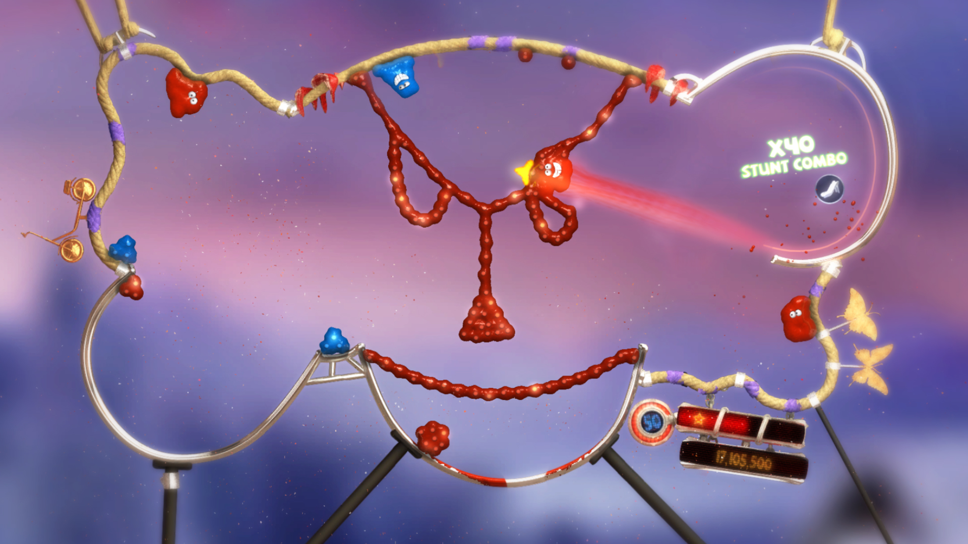 Screenshot of the Xbox Live Arcade game The Splatters, showing a level in play